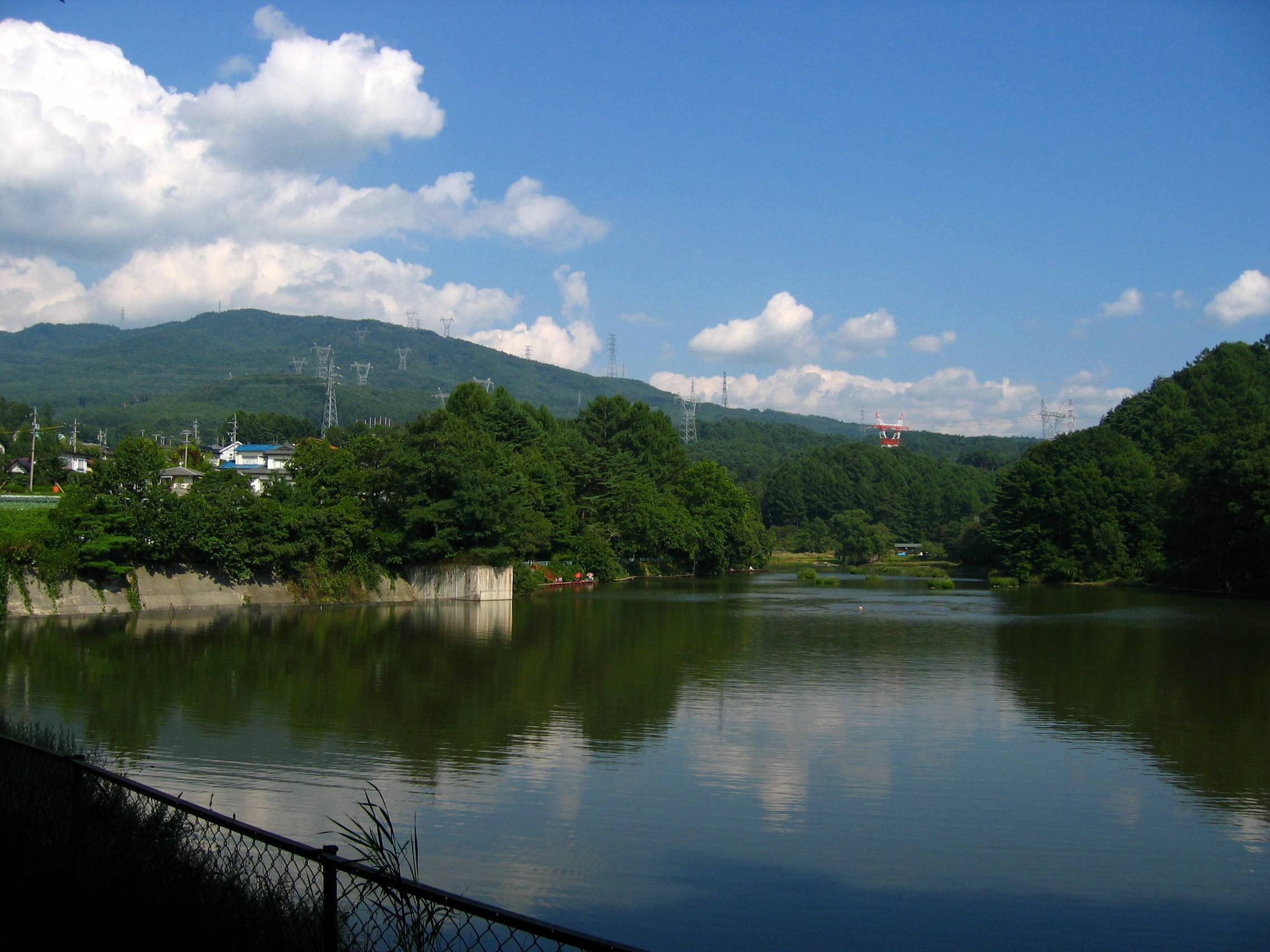 Lake Midoriko (みどり湖) is a pond in Shiojiri city, Nagano prefecture, Japan.